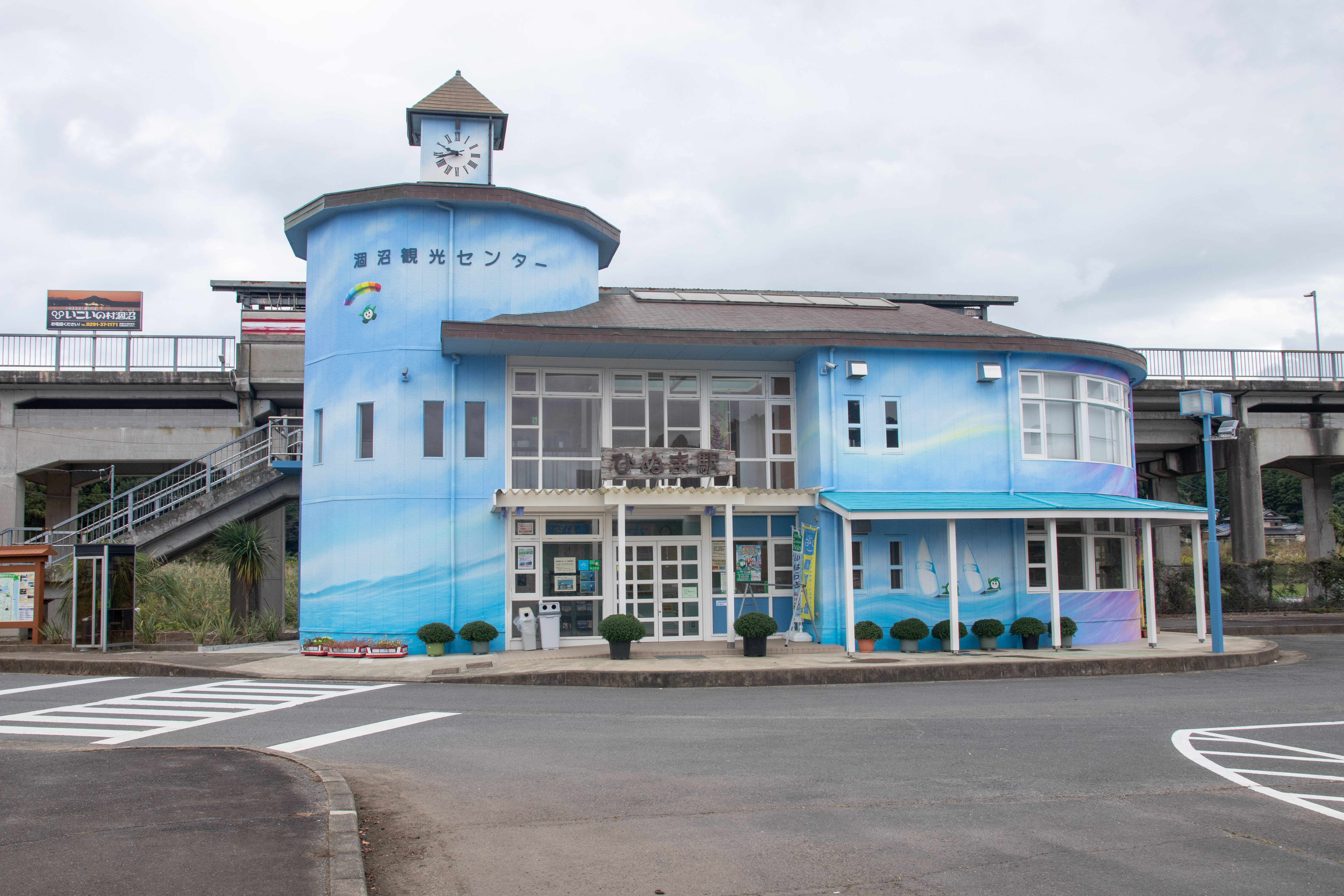 Hinuma Station in Hokota City, Ibaraki Prefecture, Japan Canon EOS 80D + Sigma 17-70mm F2.8-4 DC Macro OS HSM